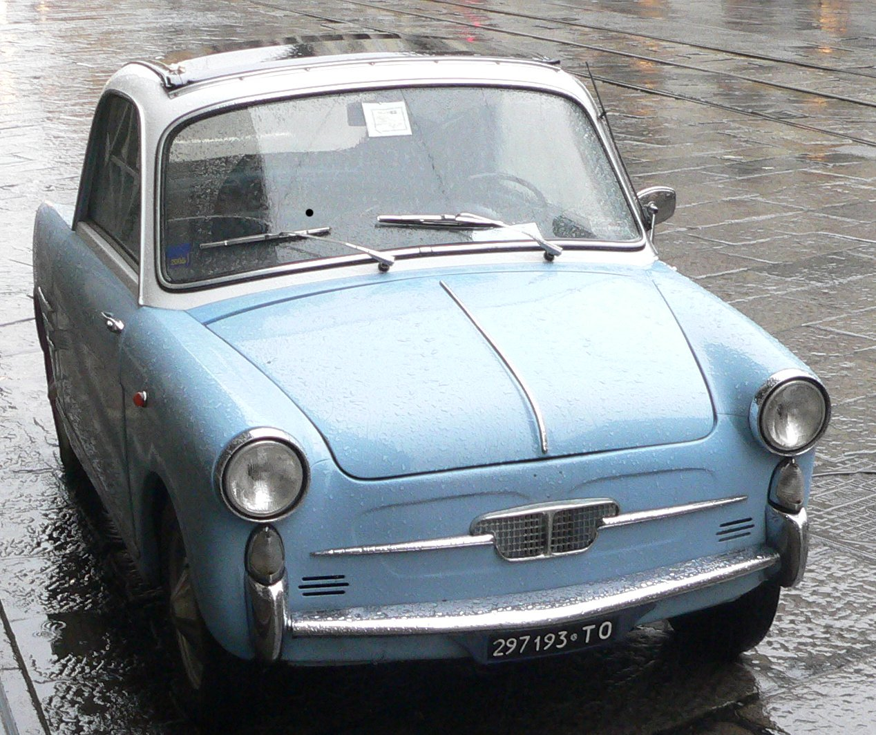 Autobianchi Bianchina Special Image taken in February 2006 in Torino by myself, Egil Kvaleberg